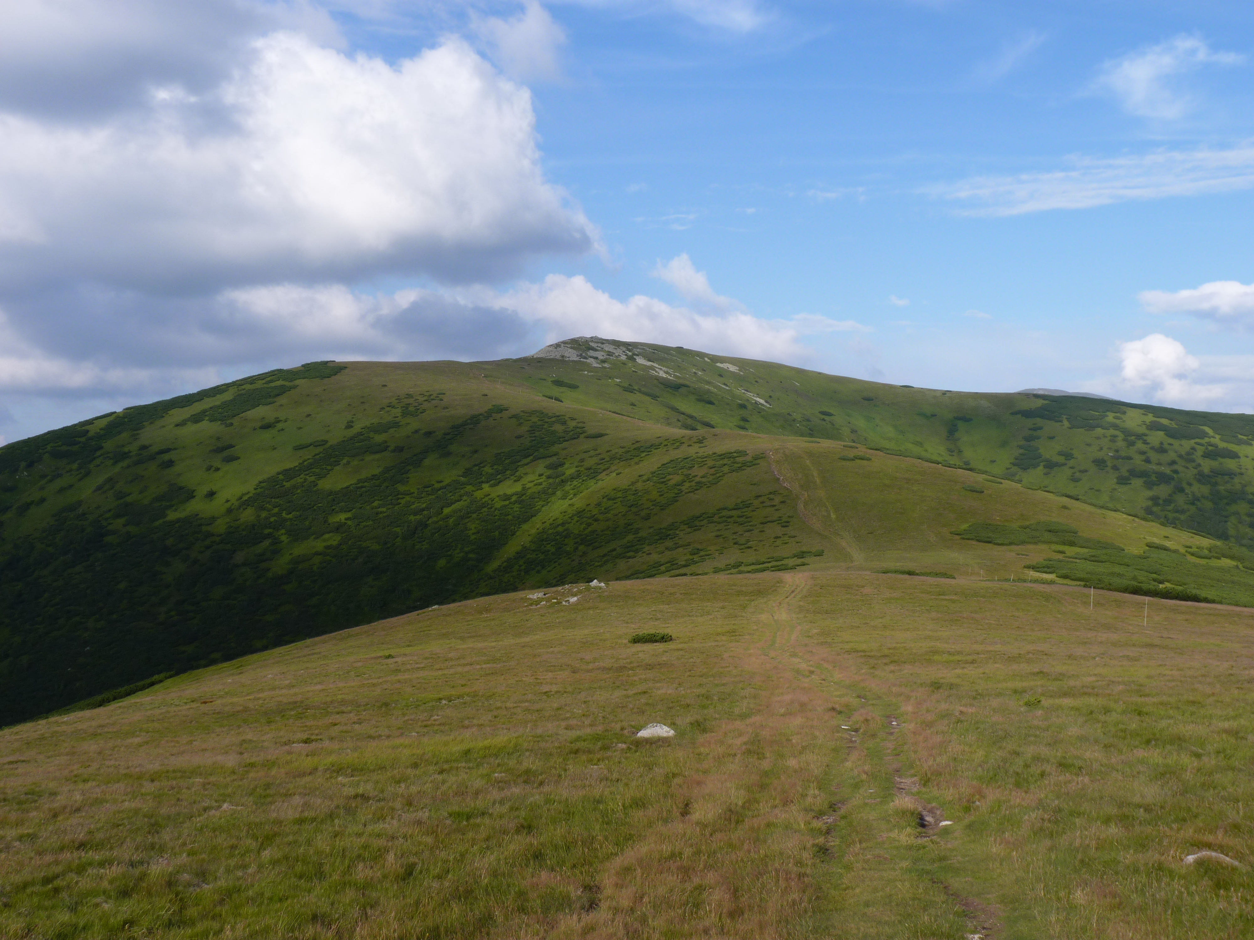 Ďurková (1750 m). Low Tatras, Slovakia